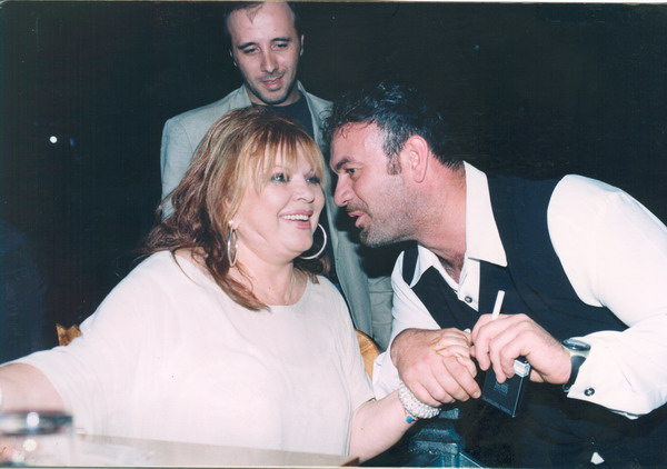 Rita Sakellariou, Laika singer in a show in Exarcheia area of Athens. Pictured using film camera Nikon AF210.